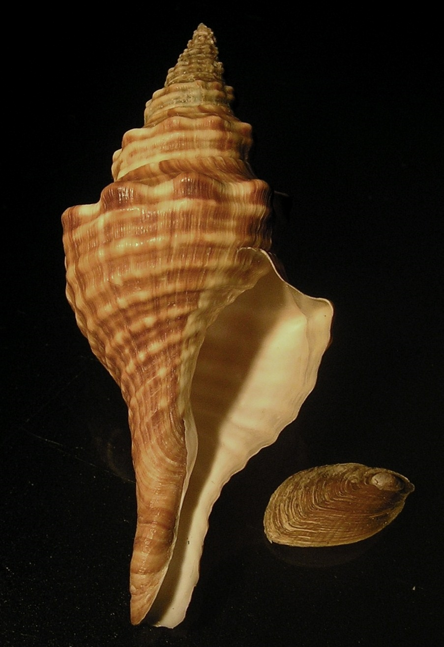 Fusinus ocelliferus (Lamarck, 1816) , a spindle snail from the family Fasciolariidae; South Africa